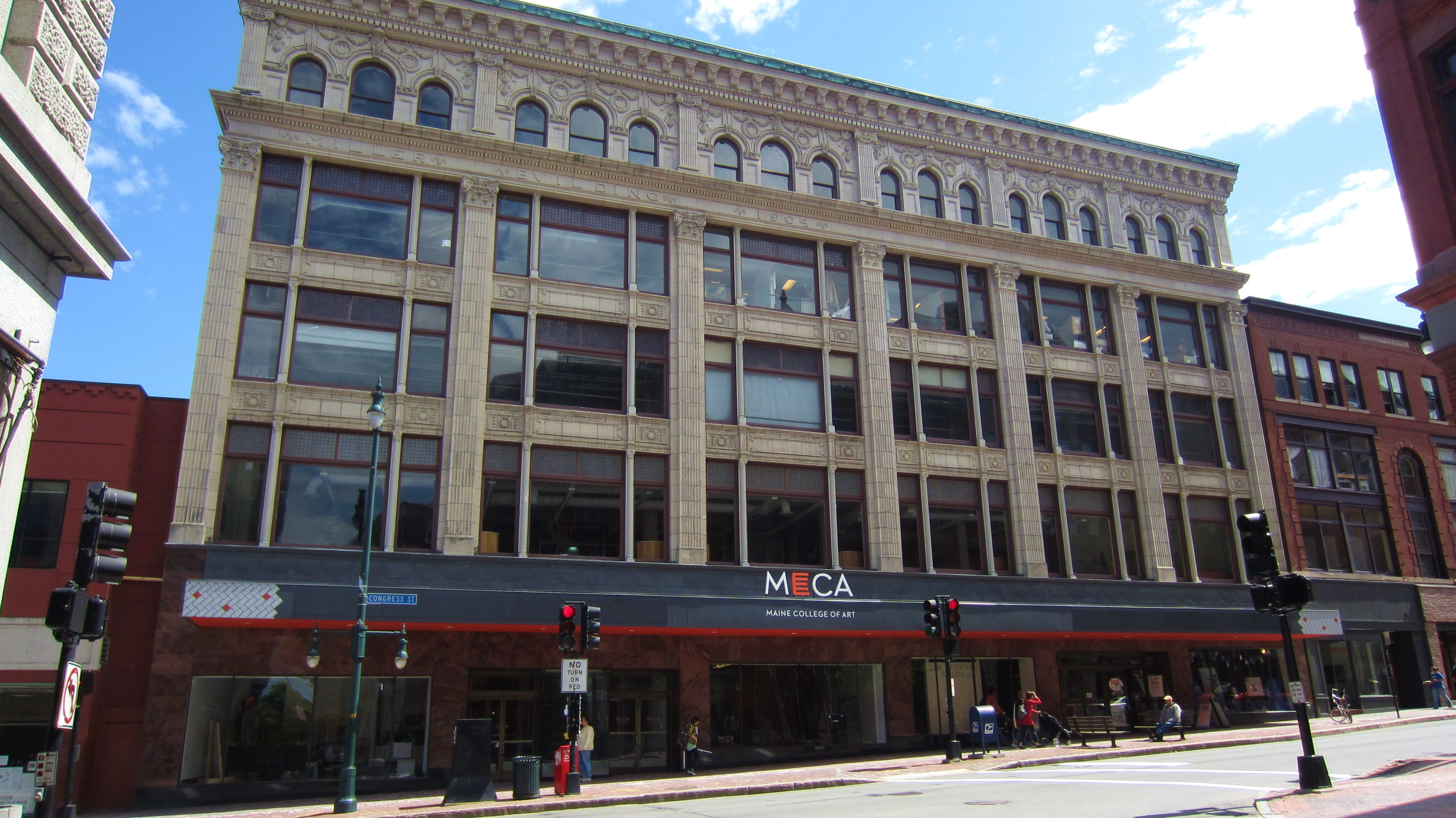 Maine College of Art